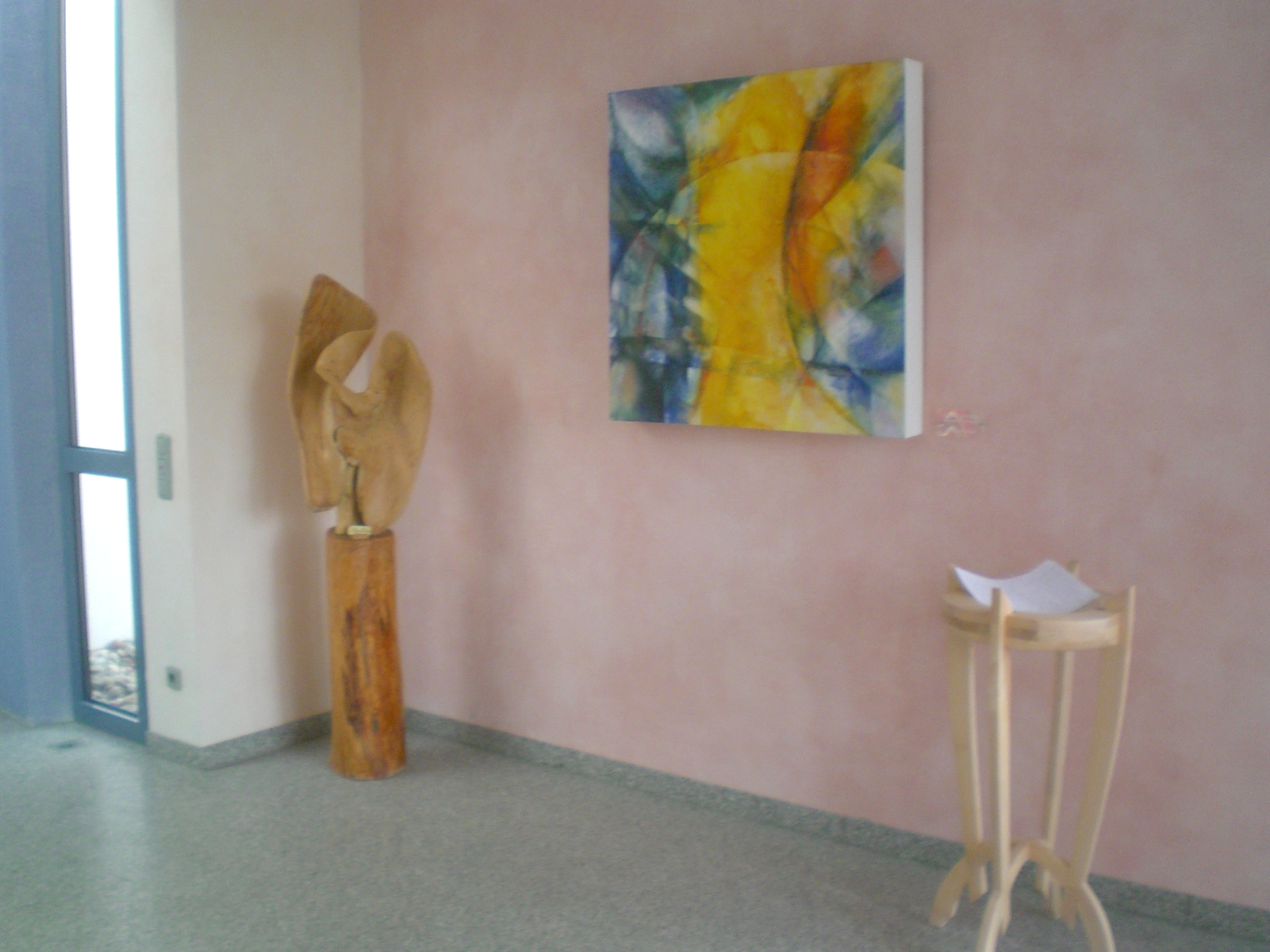 The Christian Community, Raphael Church in Darmstadt, Germany